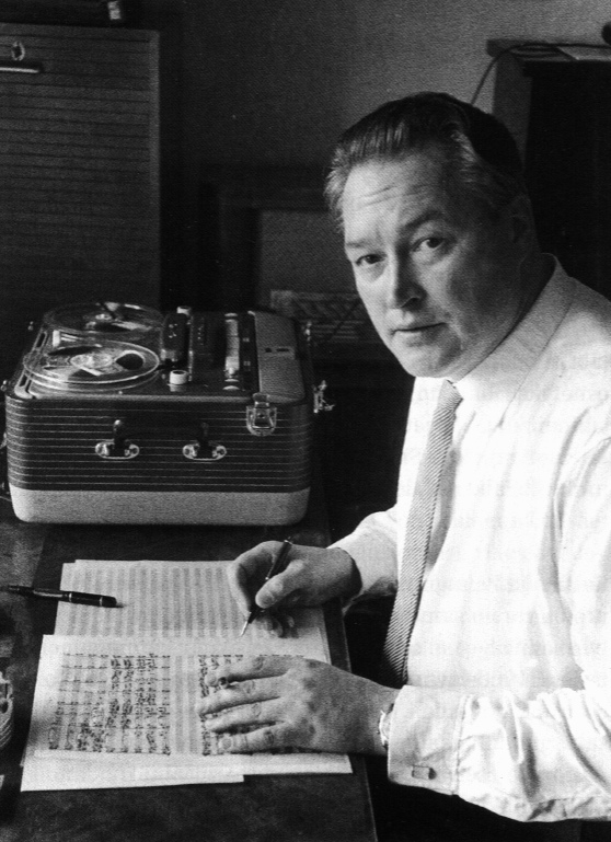 Photograph of the Finnish composer Erkki (Erik) V. Aaltonen (1910–1990).